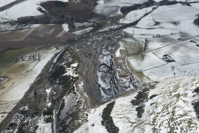 An aerial view, from the West, he former site of the Pictish hillfort "Clatchard Craig"